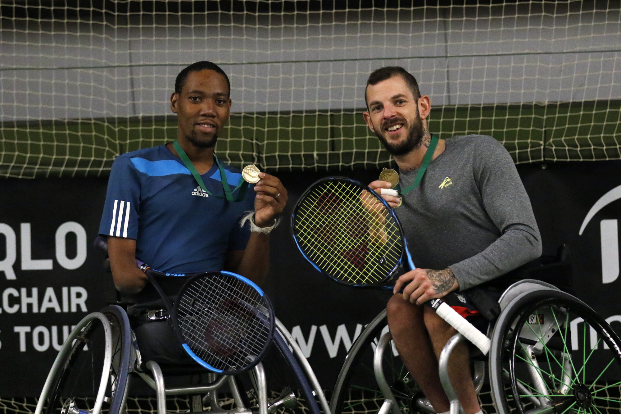 Lucas Sithole and Heath Davidson at the UNIQLO Wheelchair Doubles Masters 2017 in Bemmel, Netherlands